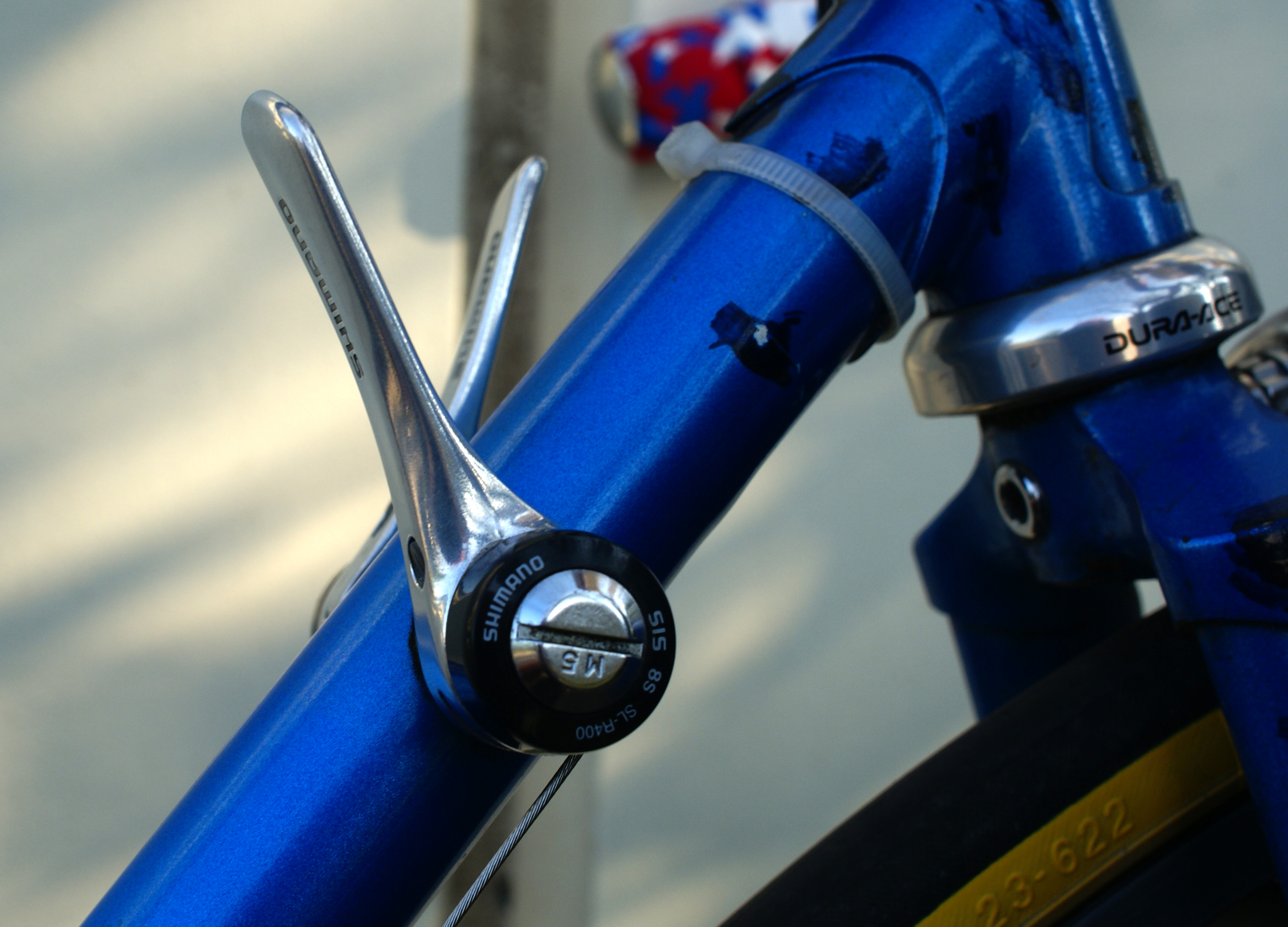 Double lever (Shimano SL-R400)